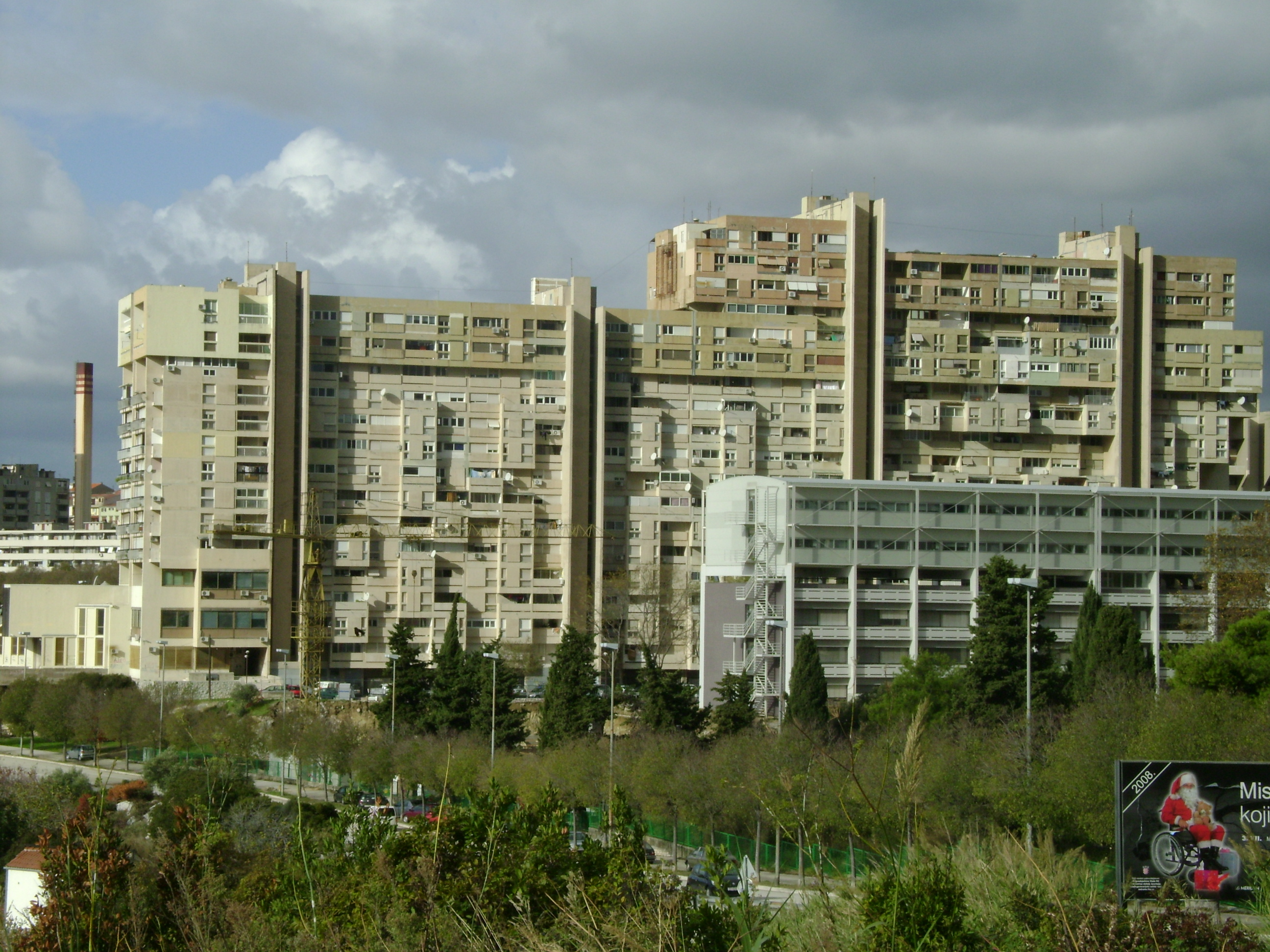 picture of building named Krstarica